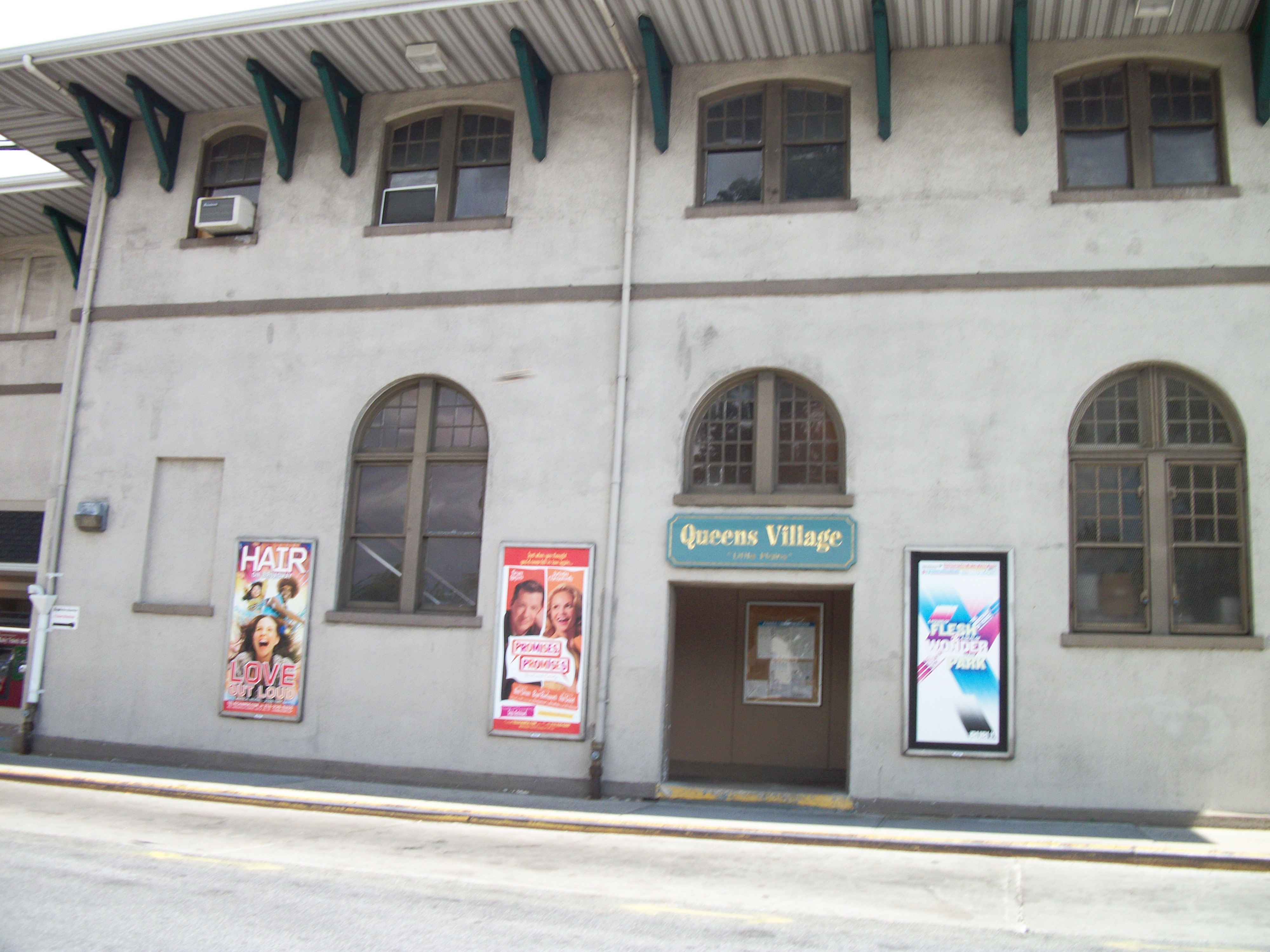 The front entrance to Queens Village (LIRR station) off the Southwest corner of Jamaica Avenue and Springfield Boulevard in Queens Village, Queens.